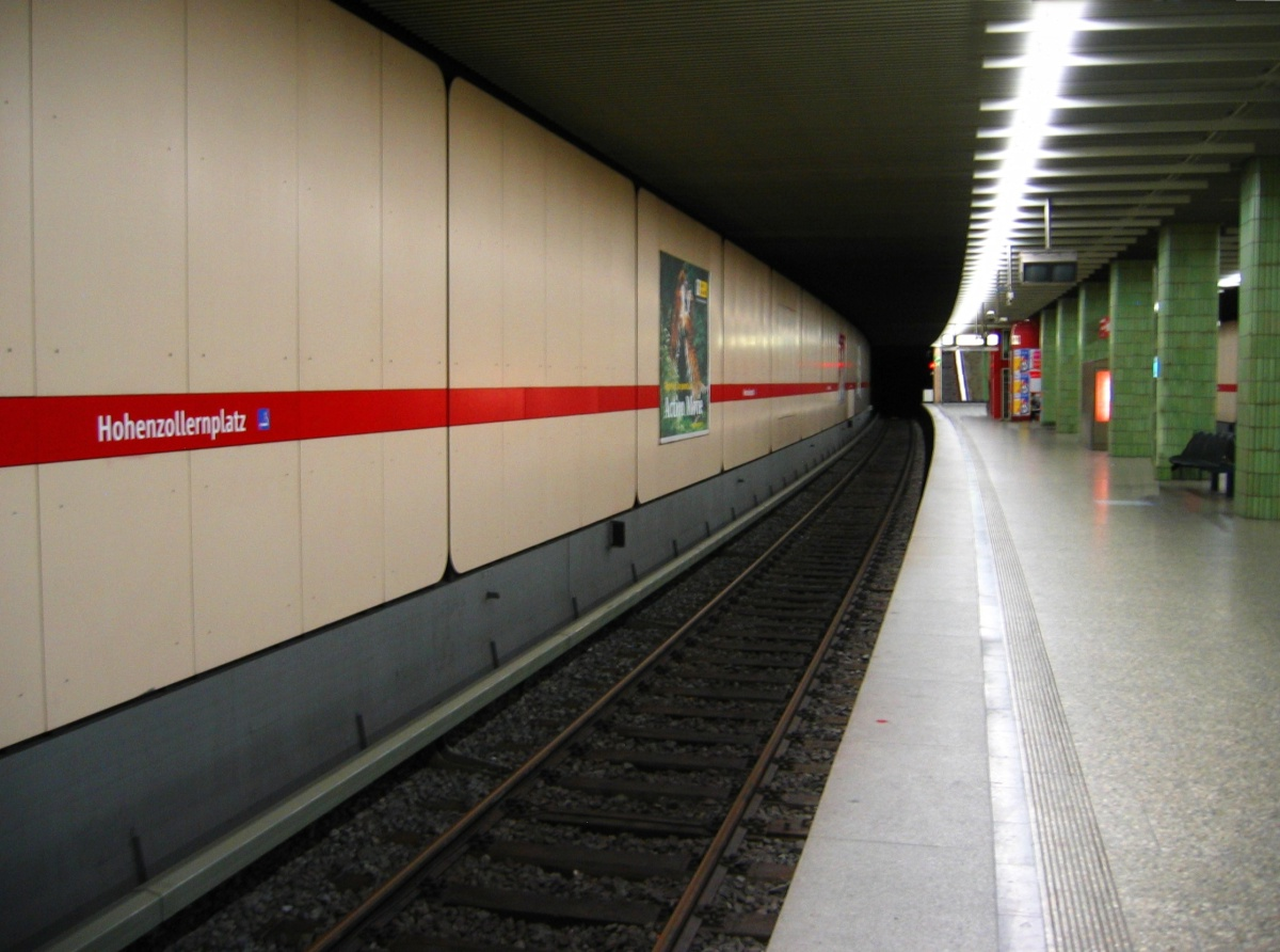 Munich subway station Hohenzollernplatz